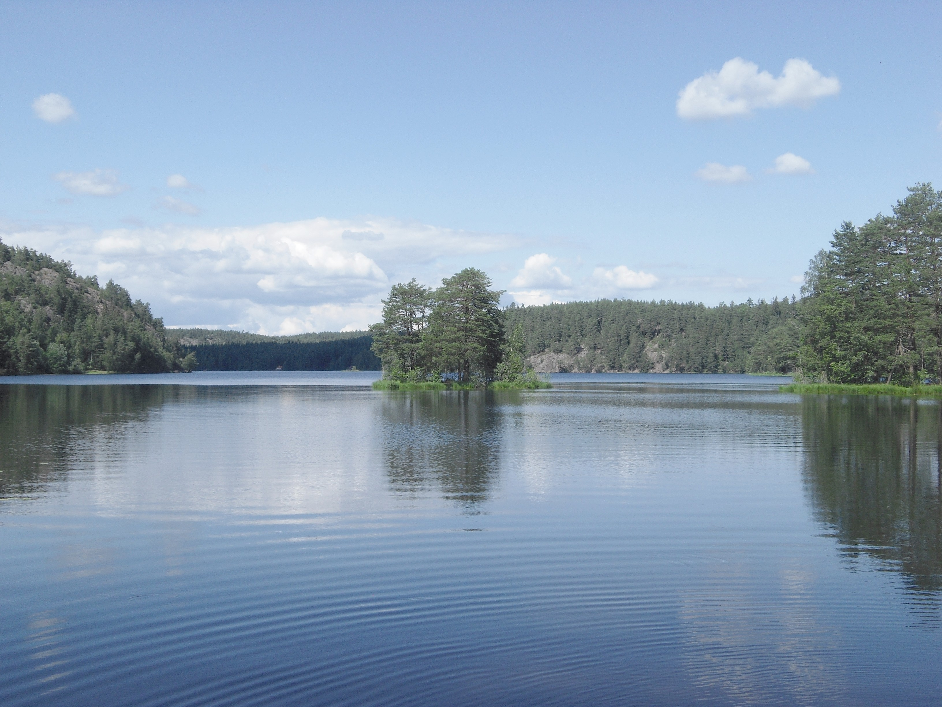 Mellan Marviken, south of Mariefred in Södermanland, Sweden.